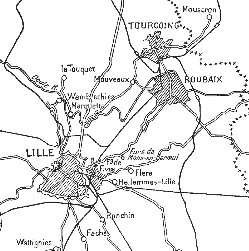 Diagram of Lille fortresses, 1914